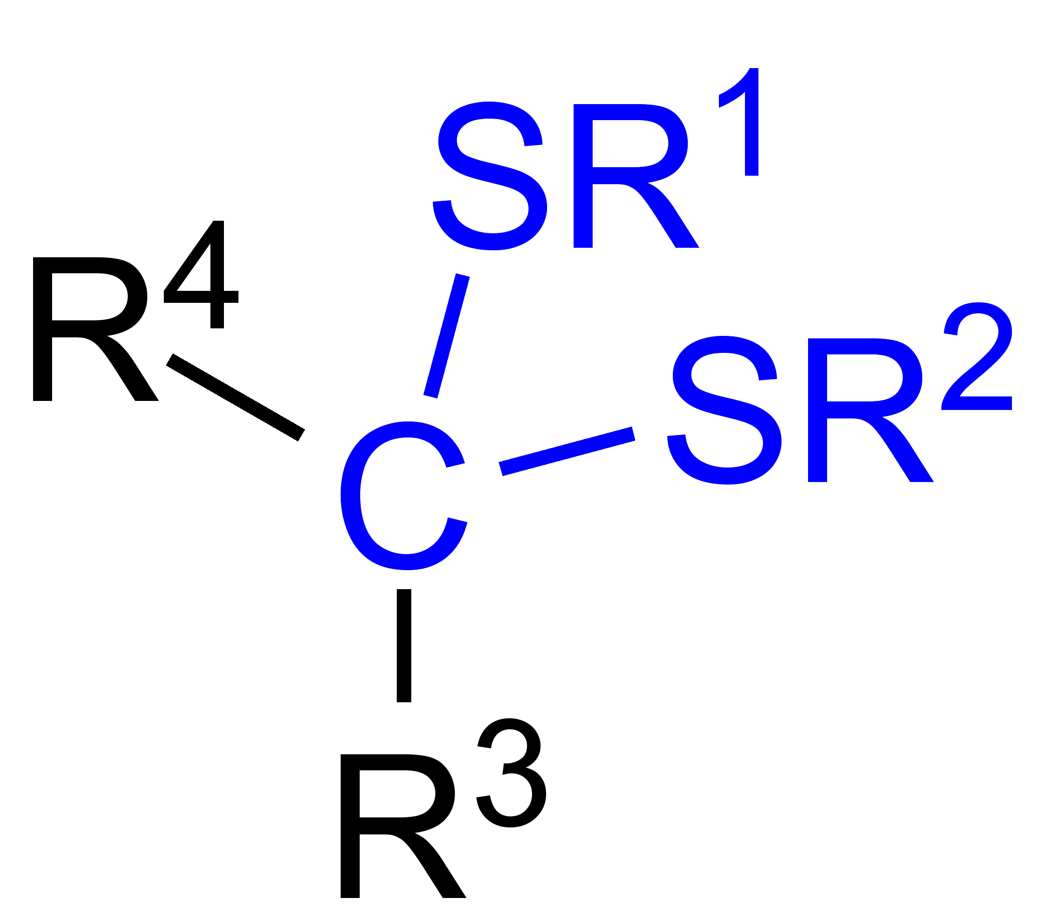 Thioketale_Structural_Formulae